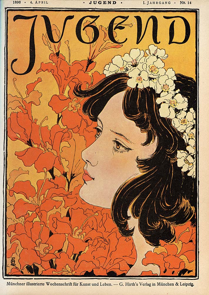 The weekly magazine Jugend no 14/1896.